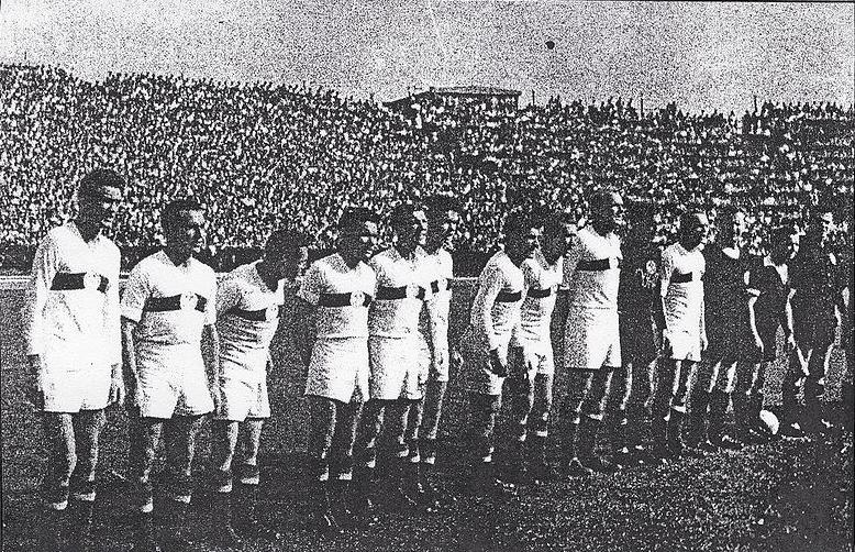 BSC Dorog in the National Stadium in Budapest